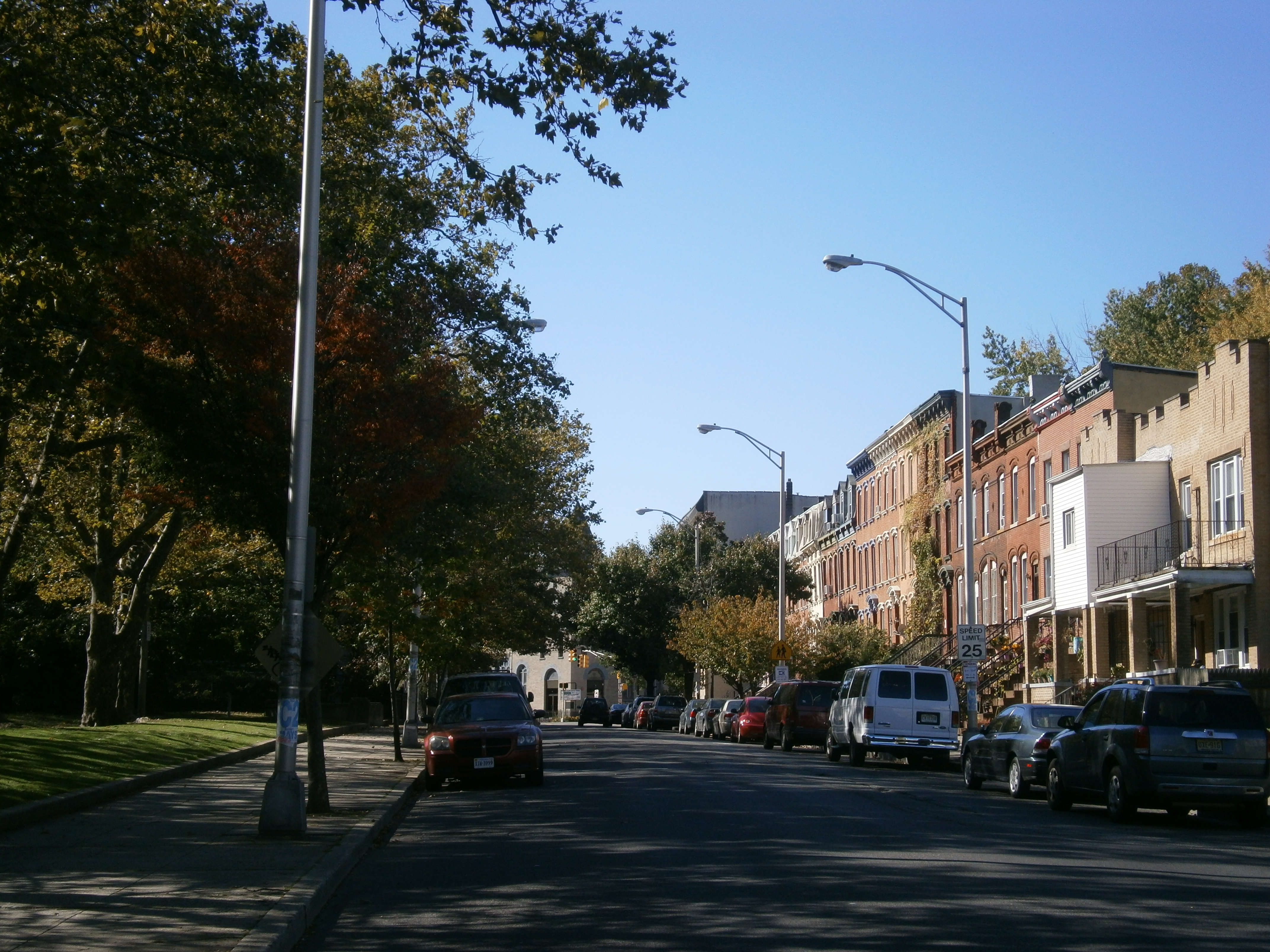 View of Grand Street ascending from Communipaw junction at Arlington Park in Bergen Hill, Jersey City